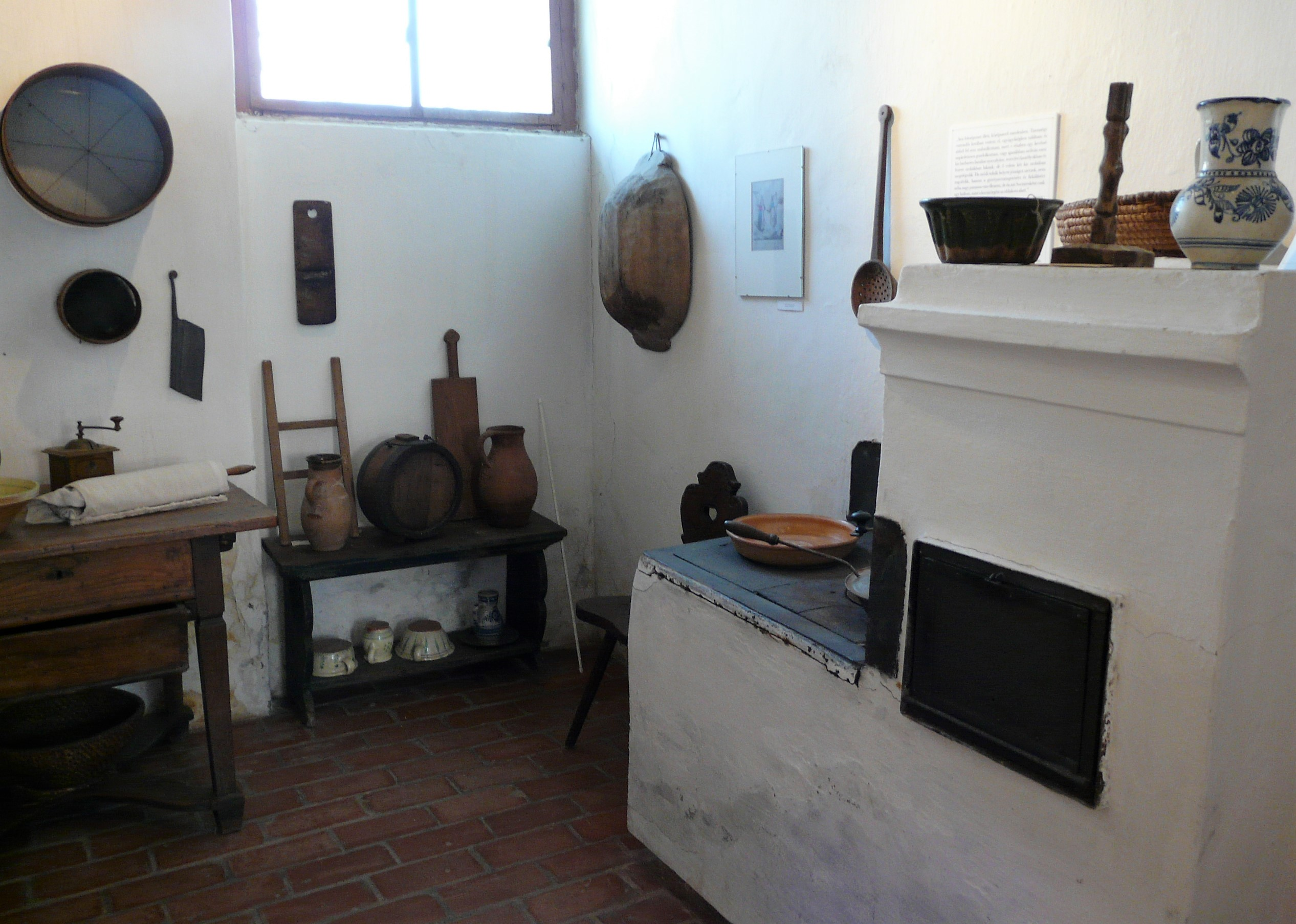 Kitchen in the Memorial house of Hungarian poet Dániel Berzsenyi in Egyházashetye